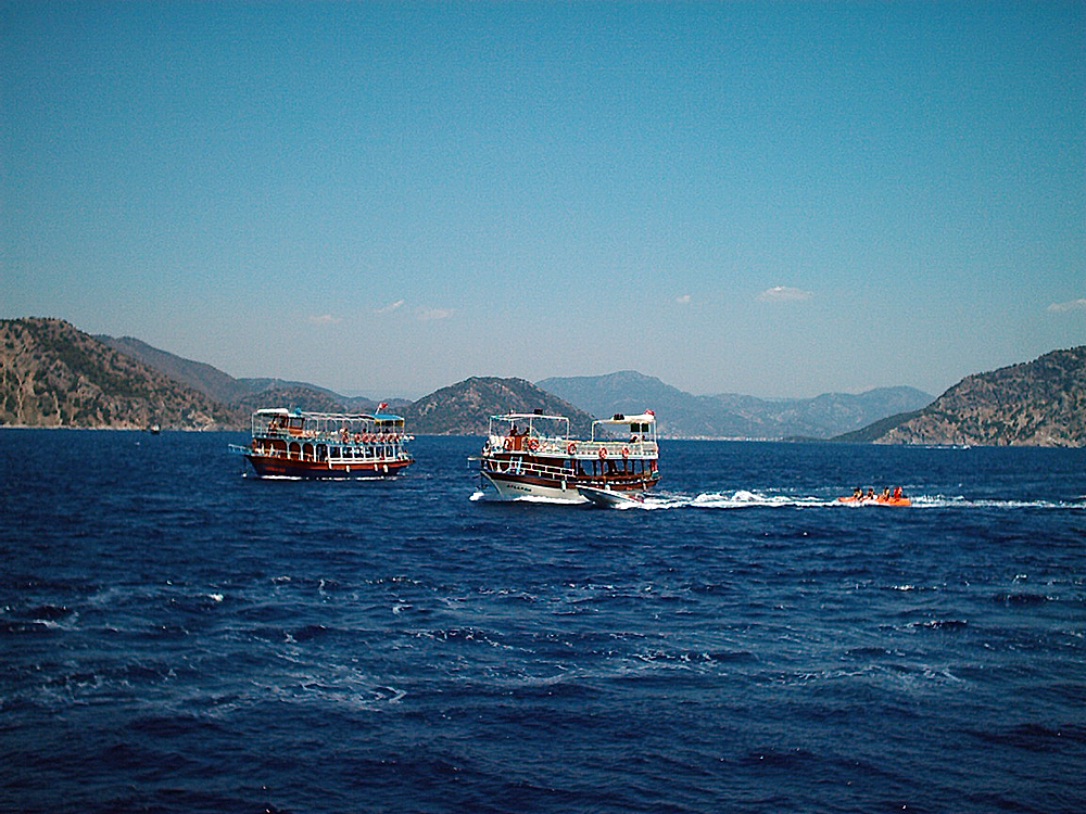 In the gulf of gulf of Marmars